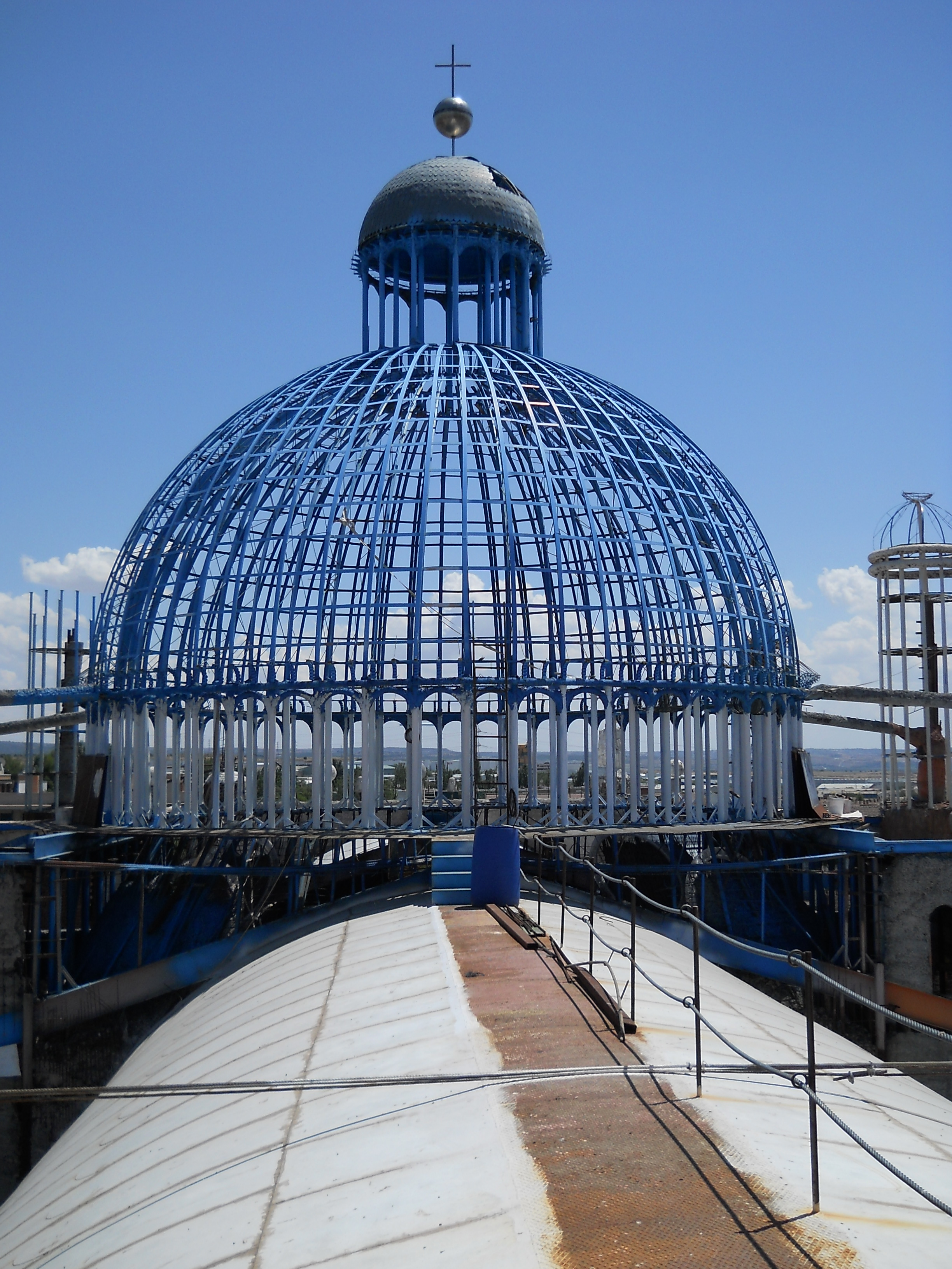 Dome, Cathedral of Justo, Mejorada del Campo, Madrid, Spain